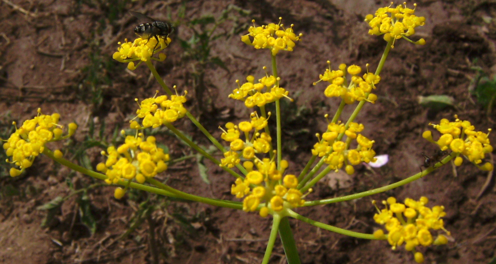 Foenniculum vulgare cultivated plant, flowers with a fly and an ant, Castelltallat, Catalonia